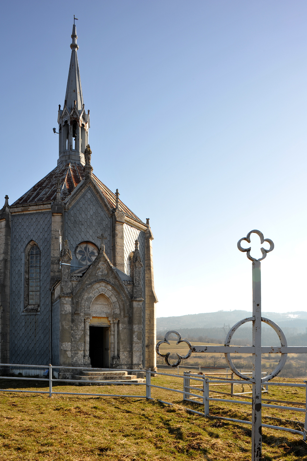 Ouhans, chapel Notre Dame des Anges; Franche-Comté, France.